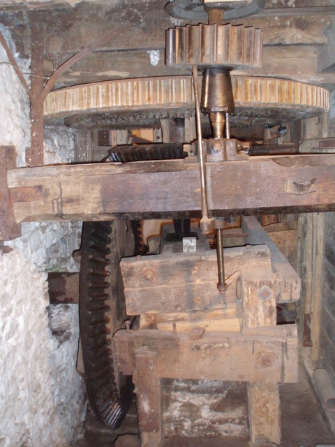 Mill machinery showing a Great Spur Wheel, Barry Mill, Angus